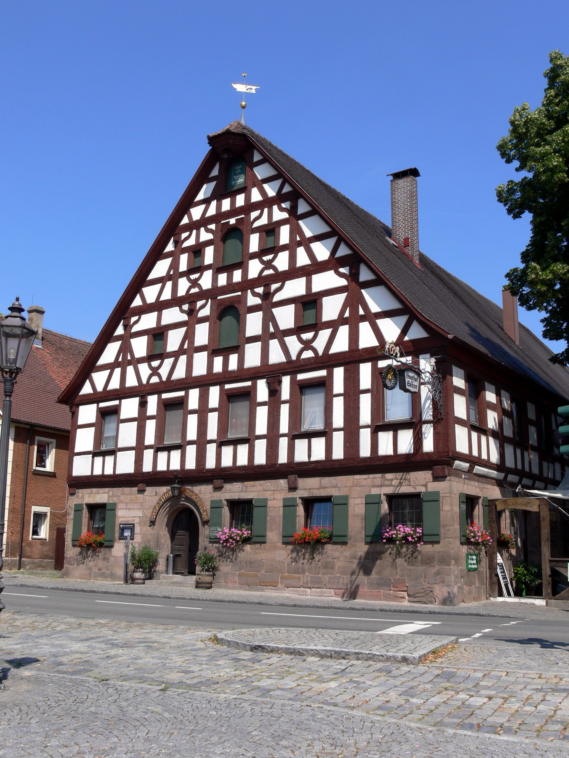 Ammerndorf. "The sun" inn, built in 1608.